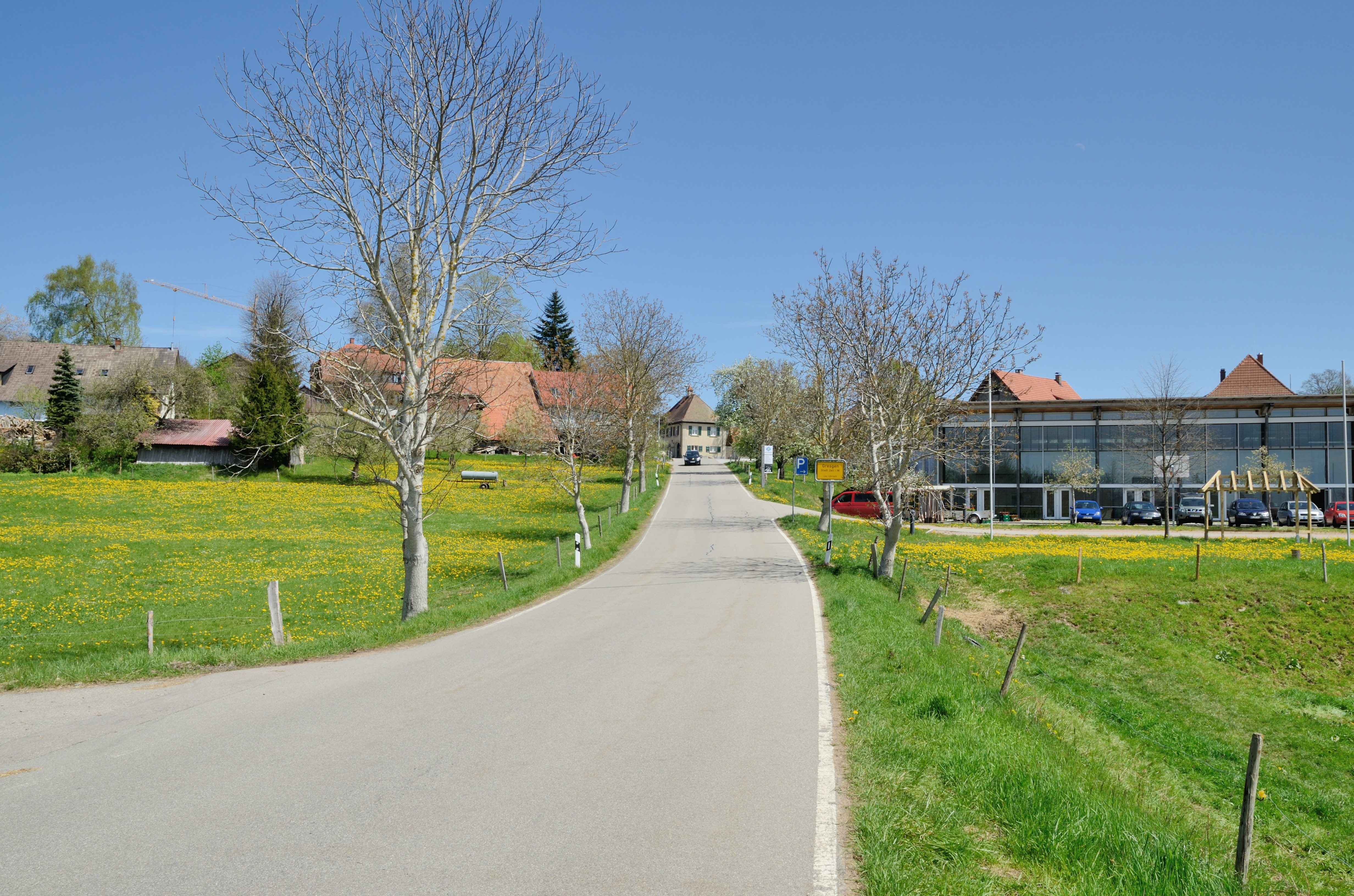 Gresgen